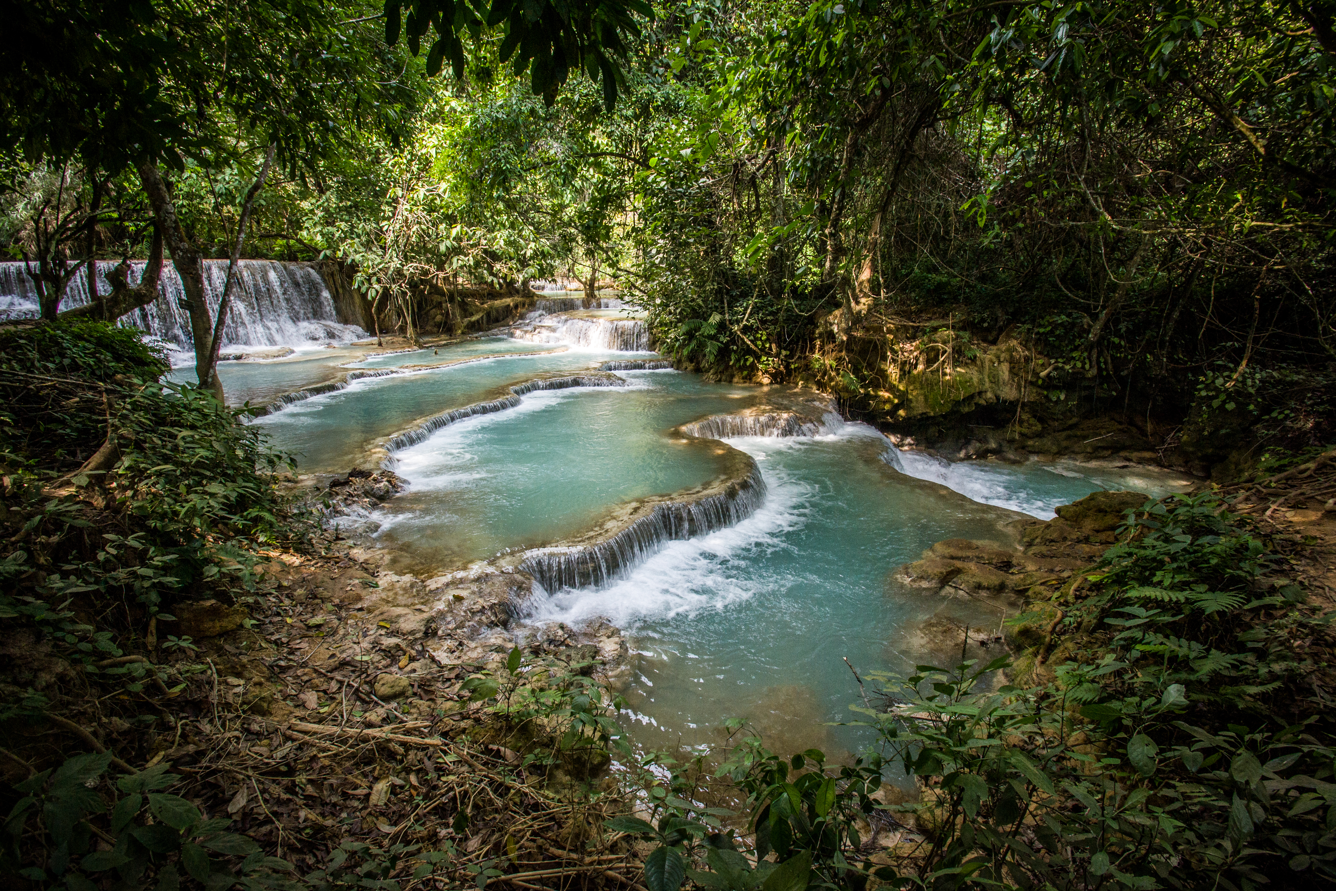 Luang Prabang, Laos